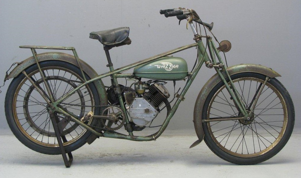 Whizzer 150cc side valve motorcycle from 1947